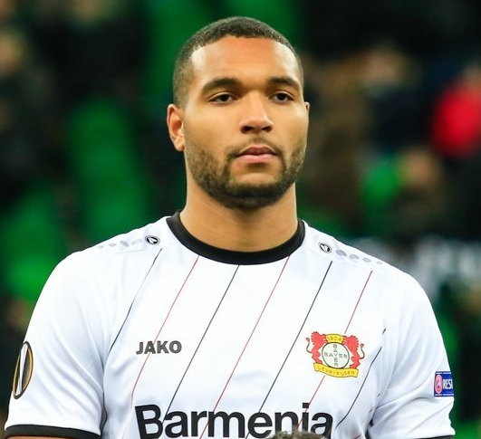 Jonathan Tah with Bayer Leverkusen before the Europa League game against FC Krasnodar.